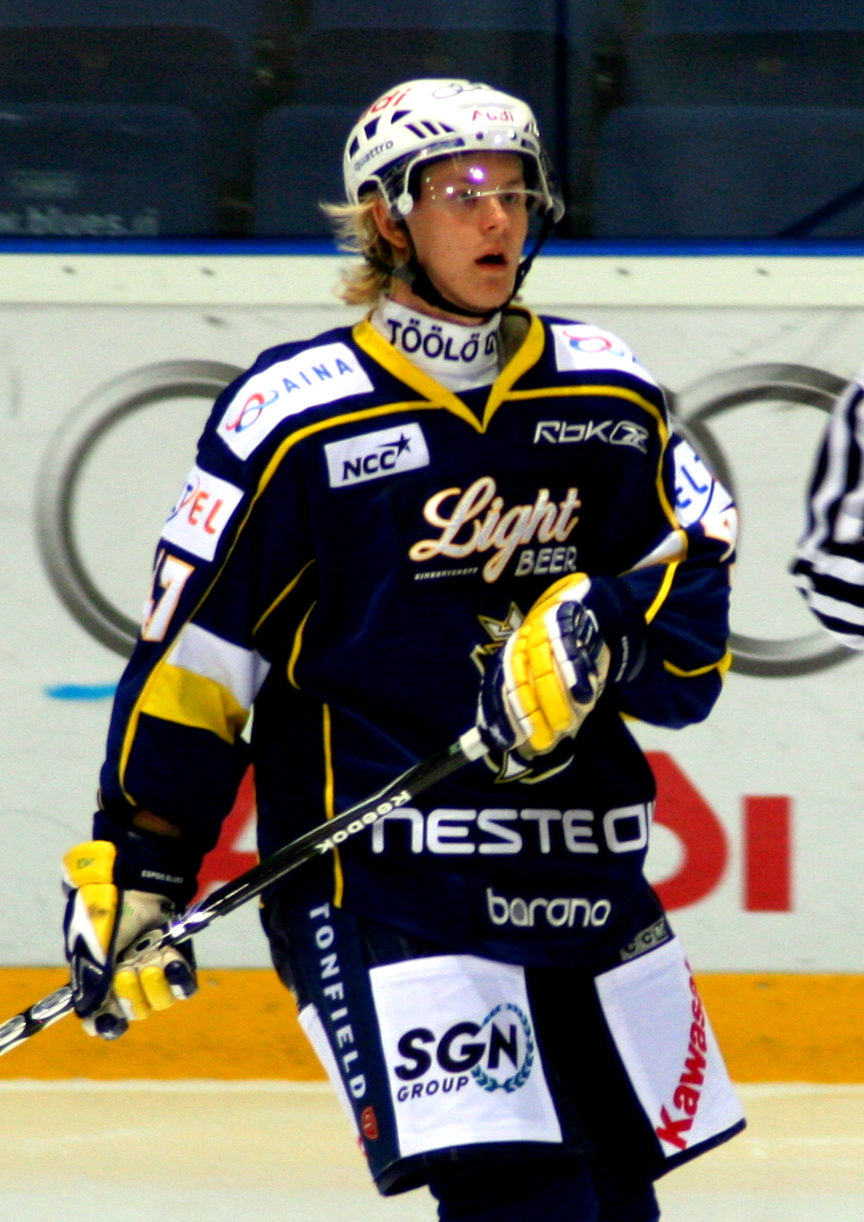 Ice hockey team Espoo Blues' defender #47 Ville Lajunen.